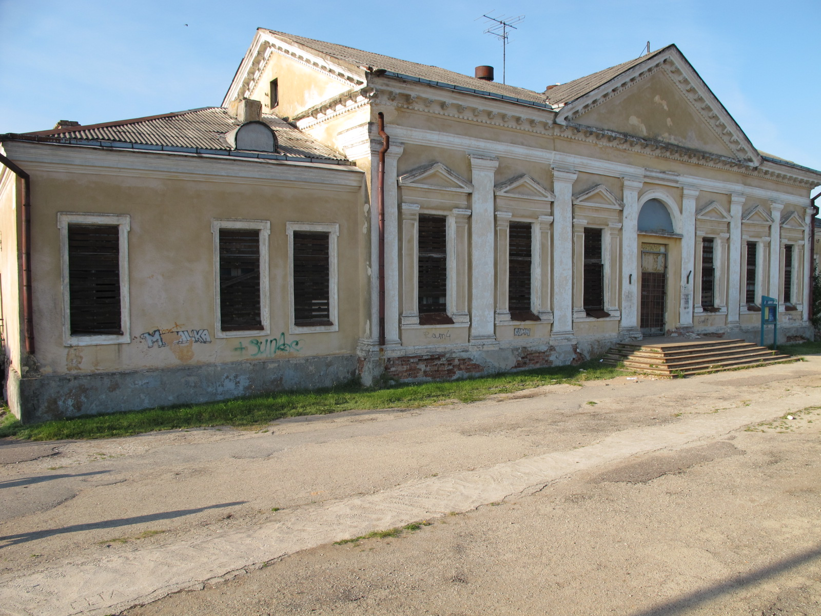 Railway Station of Estonian town Jõhvi